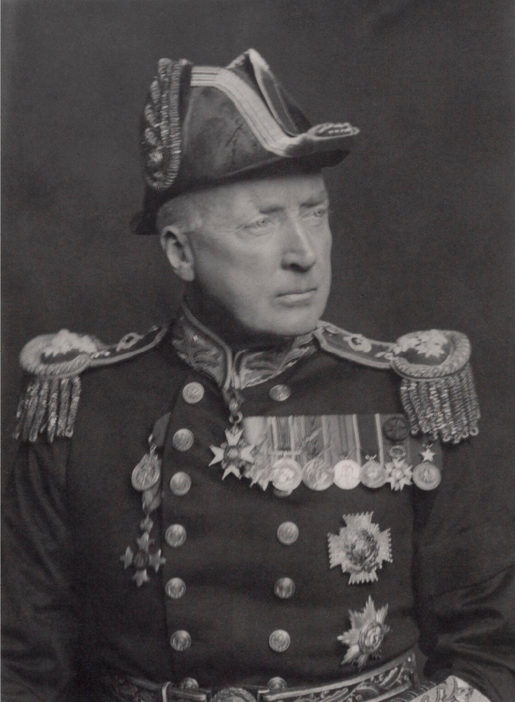 Official Royal Navy photograph of Frederic Charles Dreyer (1878-1956) as a Rear-Admiral circa 1923-1929. Crown Copyright expired.